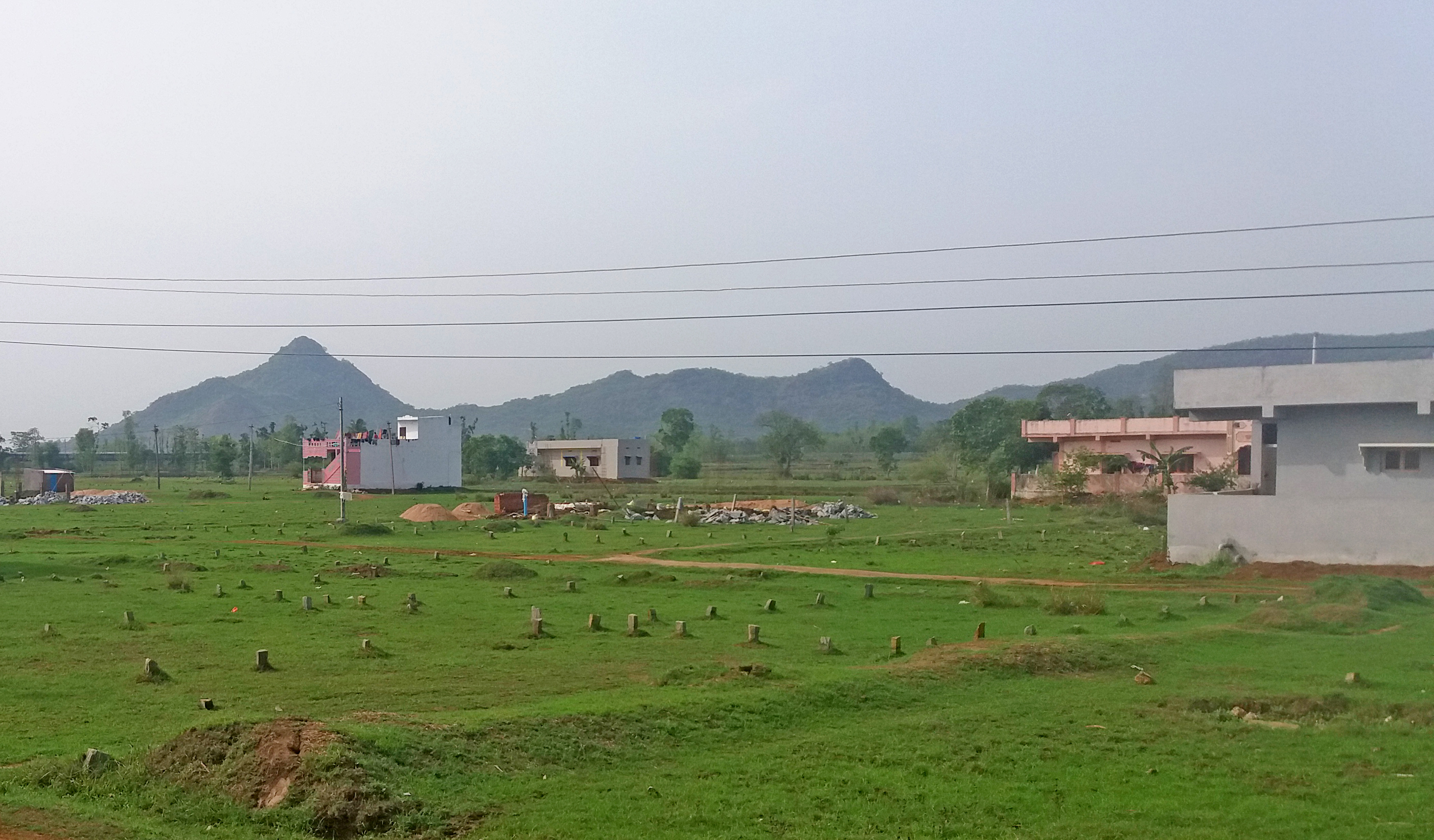 A view of Eastern Ghats from outskirts of Parvathipuram